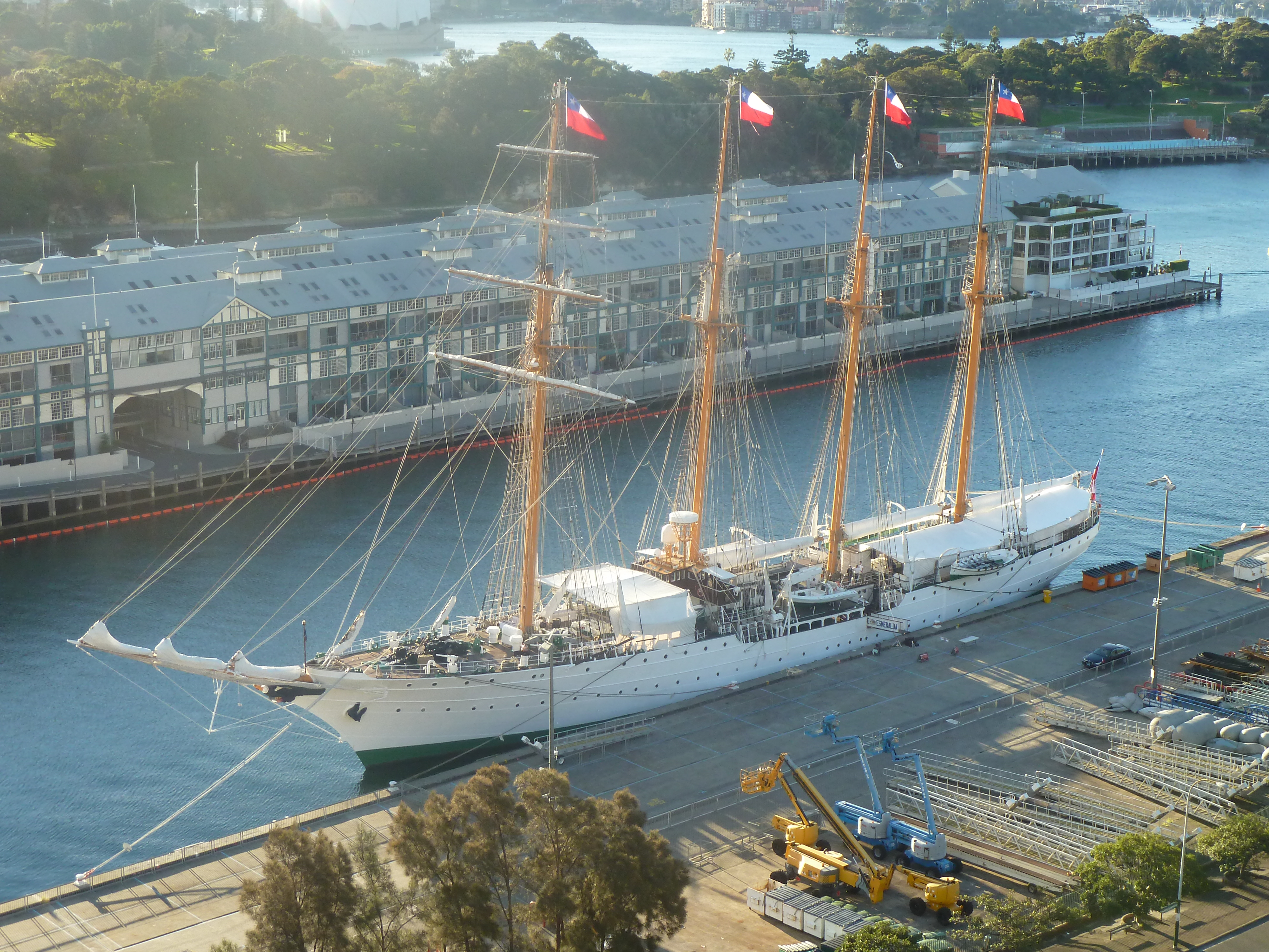 Another Lady is in Town (The Esmeralda, pride of The Chilean Navy)